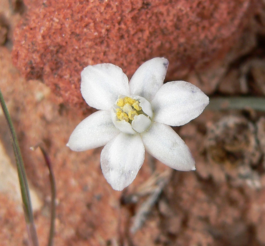 Muilla coronata on a sandy slope about 100m north of the Red Spring parking lot, in Calico Basin, west of Las Vegas, Nevada